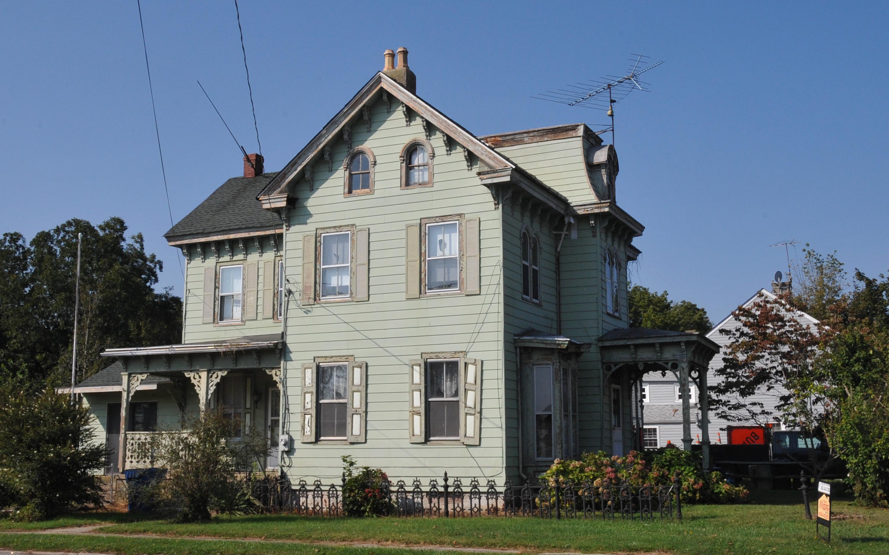 Sipple House 1880-1890; MOST ELABORATE VICTORIAN HOUSE IN LEIPSIC; REFLECTED THE ECONOMIC BOOM FROM HAY, OYSTER, AND MARITIME PRODUCTS FROM LEIPSIC